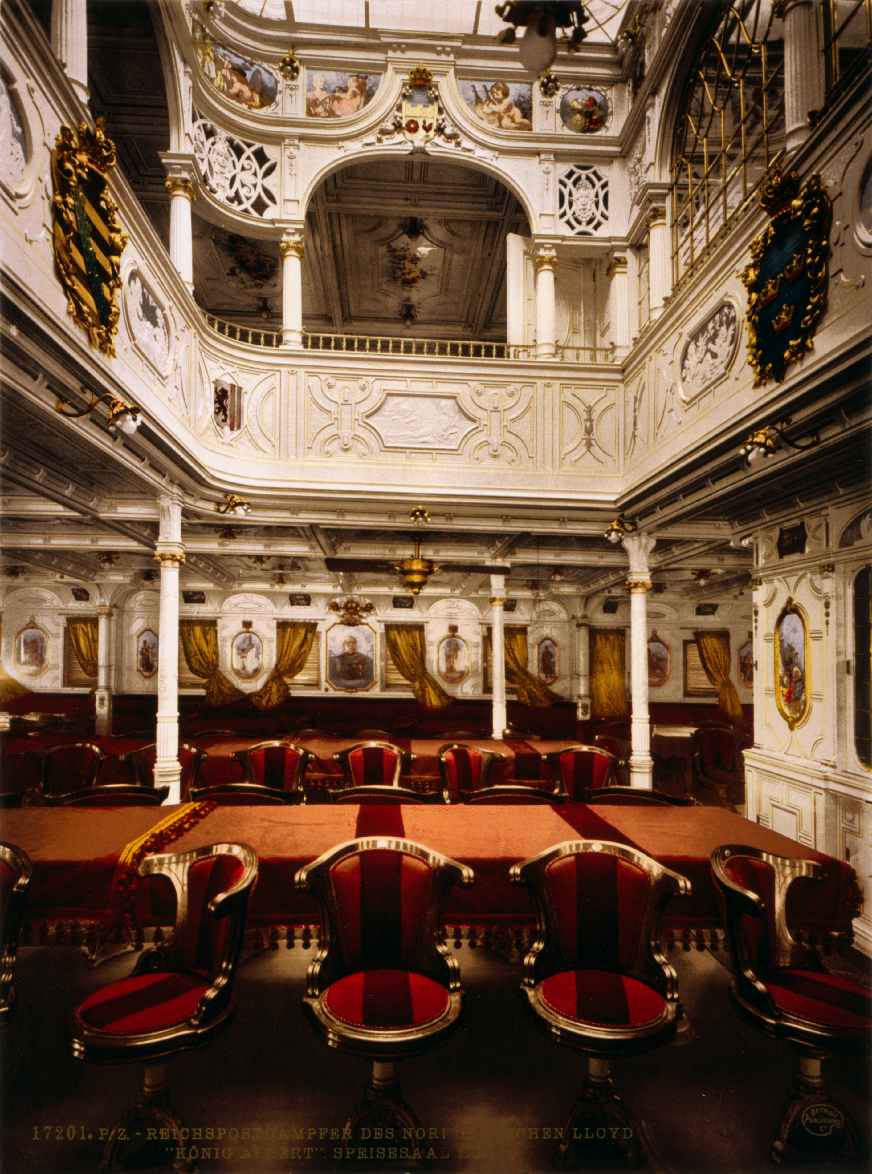 North German Lloyd mail steamer SS König Albert, first class dining room